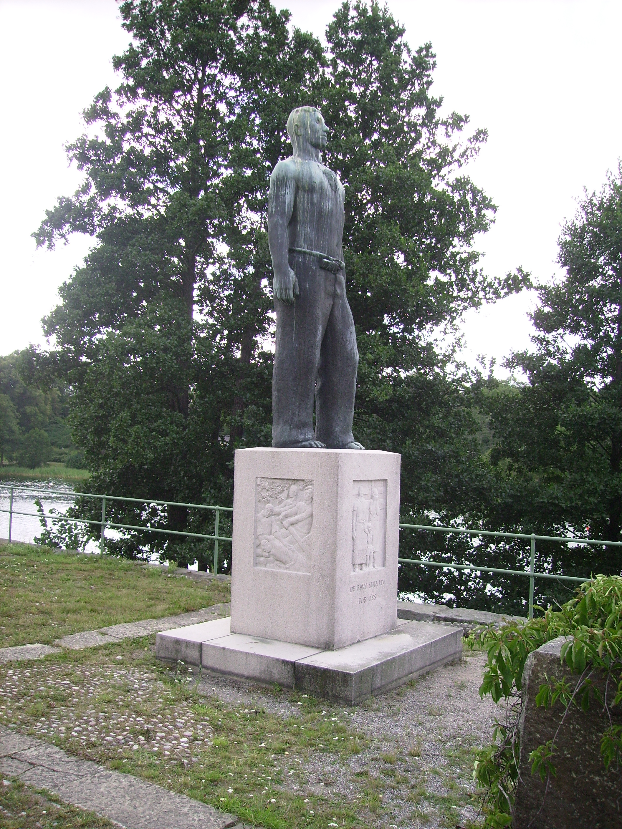 Picture of sculpture in Stockholm, Sjömannen (The seaman)